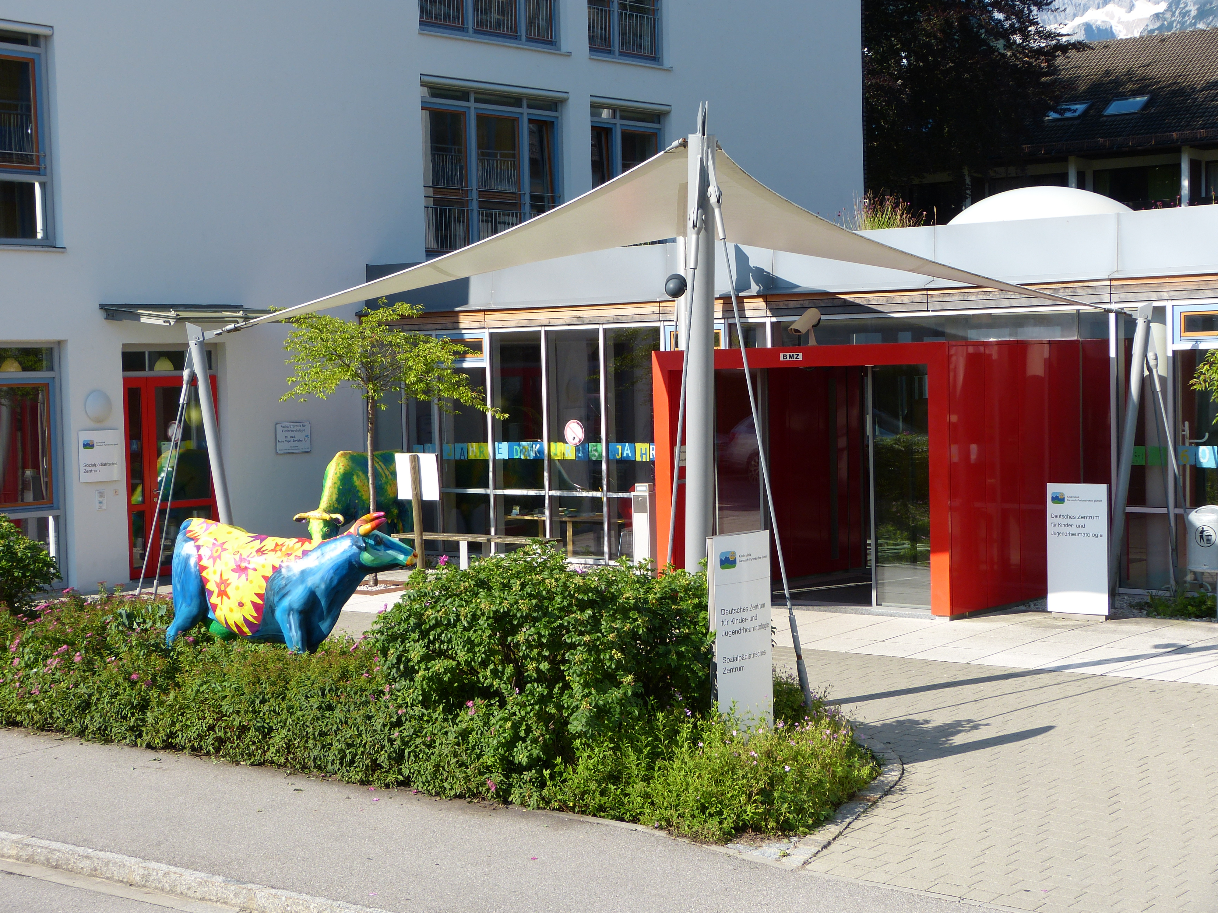 The Children's Hospital of the Inner Mission in Garmisch-Partenkirchen with the newly erected rheumatology wing, approximately 1965